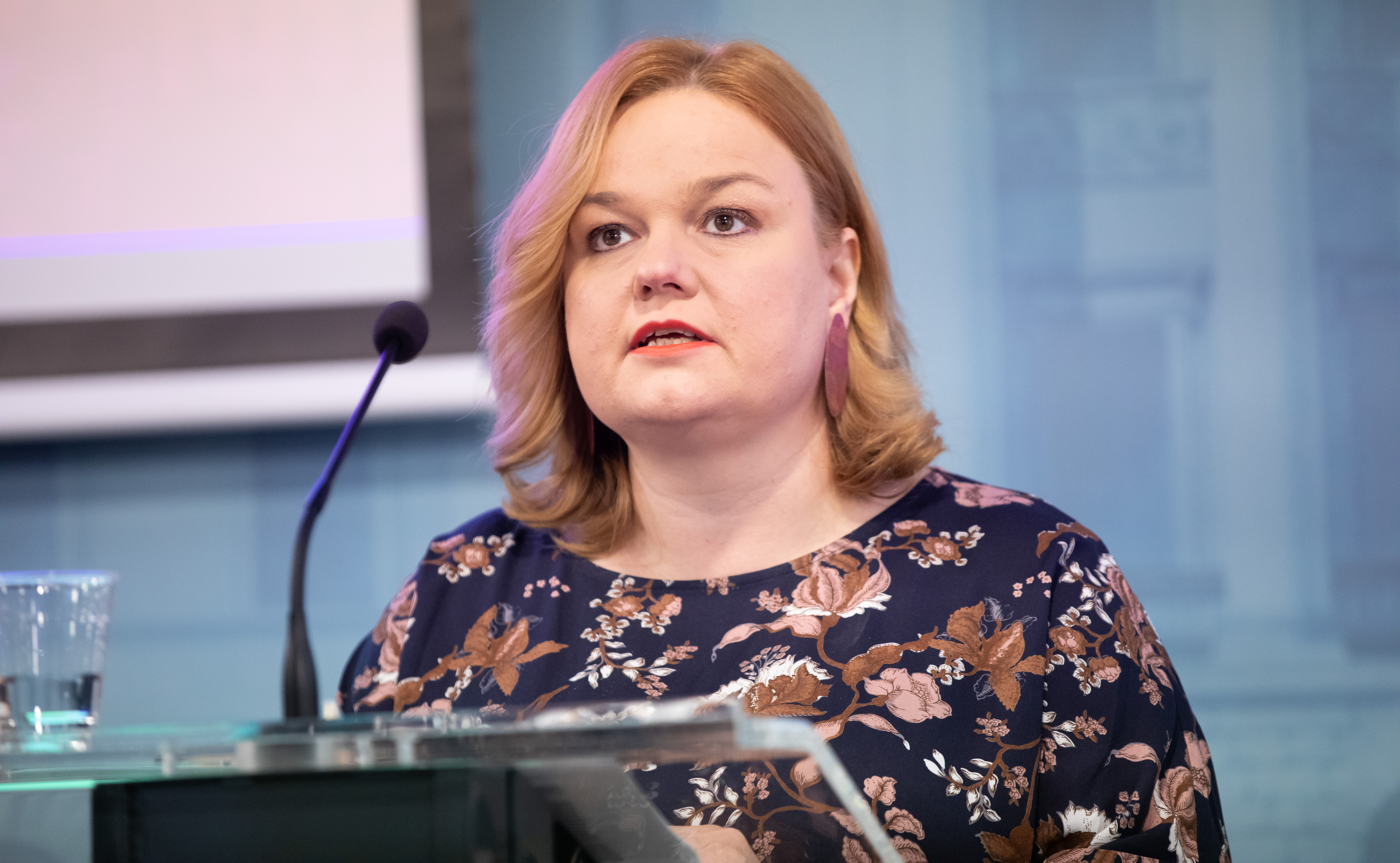 © Lauri Heikkinen | valtioneuvoston kanslia